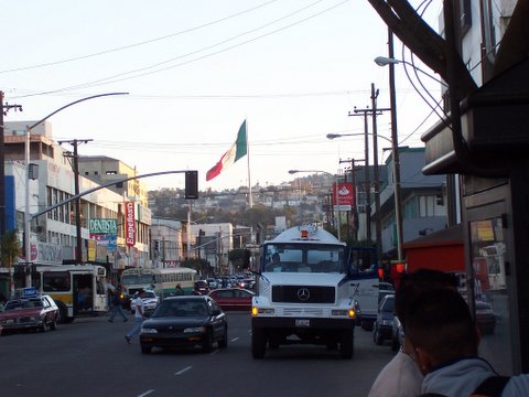 Michael McGlothlin, October 2005, Photo of a Tijuana street near Revolucion Ave with hillside and Mexican flag in background.